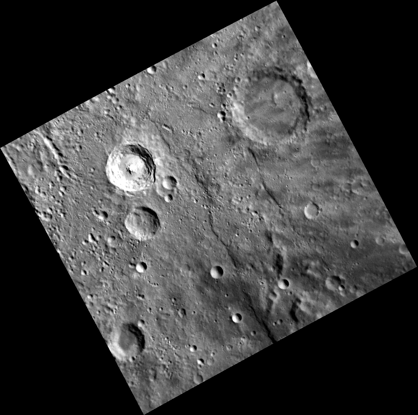 Date acquired: March 29, 2012 Image Mission Elapsed Time (MET): 241497908 Image ID: 1578541 Instrument: Narrow Angle Camera (NAC) of the Mercury Dual Imaging System (MDIS) Center Latitude: -39.25° Center Longitude: 275.6° E Resolution: 197 meters/pixel Scale: Copley is 35 km (22 miles) in diameter. Incidence Angle: 59.2° Emission Angle: 15.6° Phase Angle: 43.6° Of Interest: This NAC image features the complex crater Copley, the bright crater located just slightly northwest of the center of this image. It's named after John Singleton Copley, an American painter known for portrait paintings of important figures in colonial New England. Copley features a bright central peak and neighbors the larger crater Carducci, which is positioned just to the west of this image. This image was acquired as part of MDIS's high-resolution albedo base map. The best images for discerning variations in albedo, or brightness, on the surface are acquired when the Sun is overhead, so these images typically are taken with low incidence angles. The albedo base map is a major mapping campaign in MESSENGER's extended mission and will cover Mercury's surface at an average resolution of 200 meters/pixel.